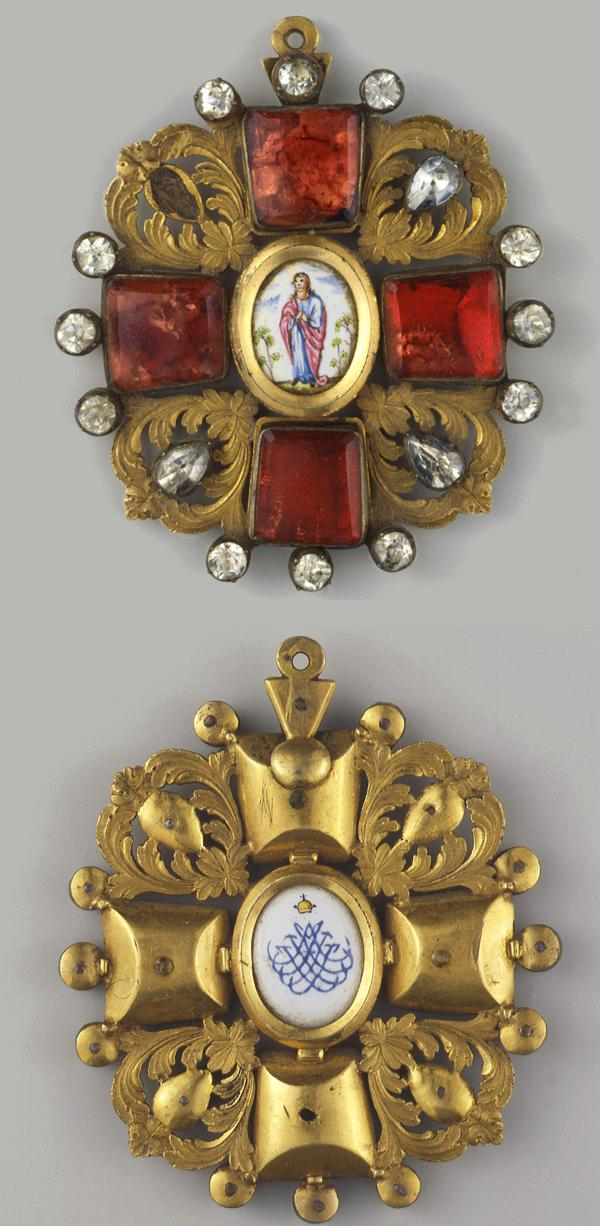 Badge of Order of St. Anna